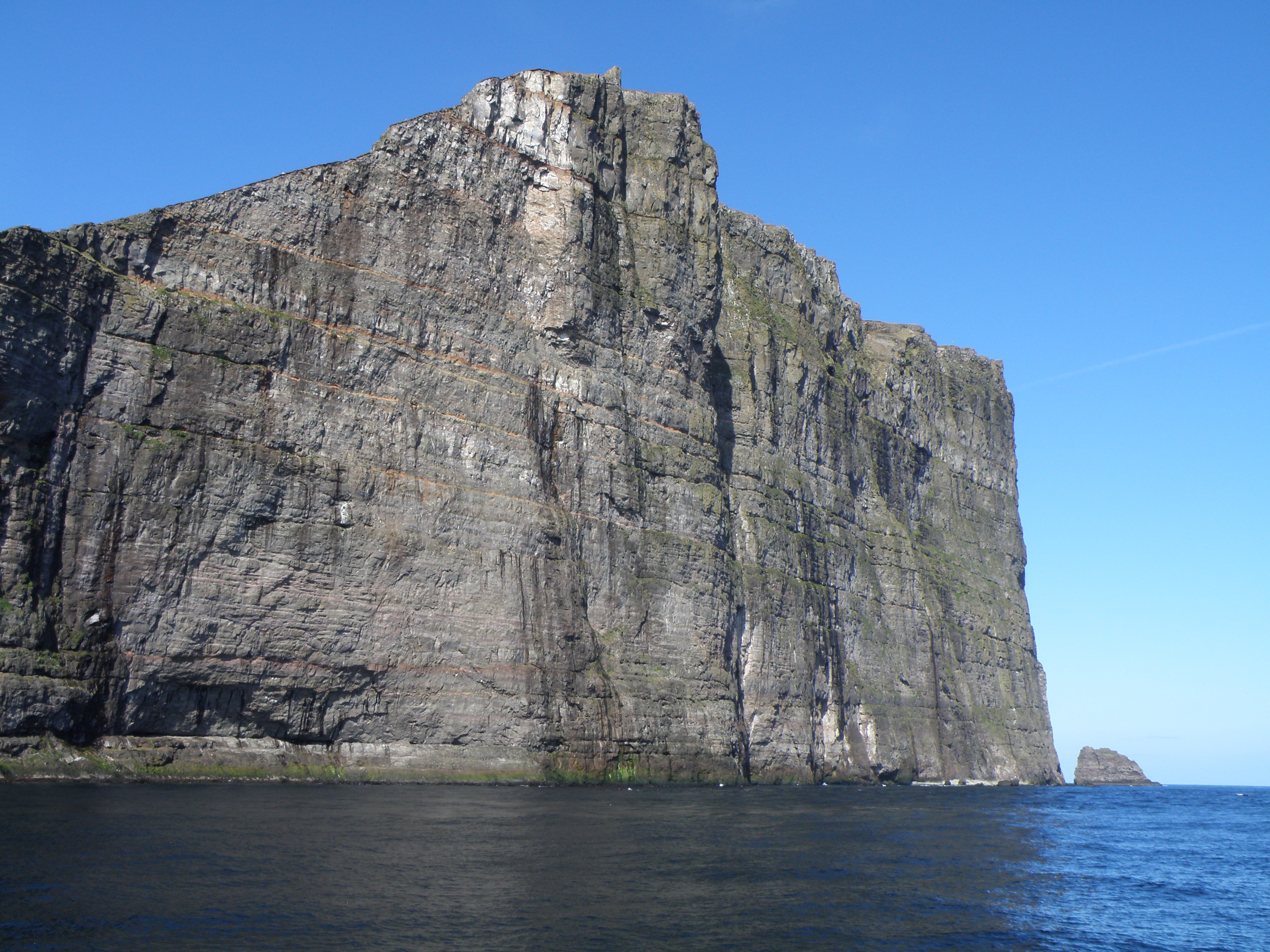 Eystfelli is a 448 meter high sea cliff on the east - north-east coast of the island Fugloy in the Faroe Islands. The sea stack to the right of the huge cliff is called Stapin, it is the easternmost point of the Faroe Islands. Stapin is 47 meters high. Fugloy means Bird Island.